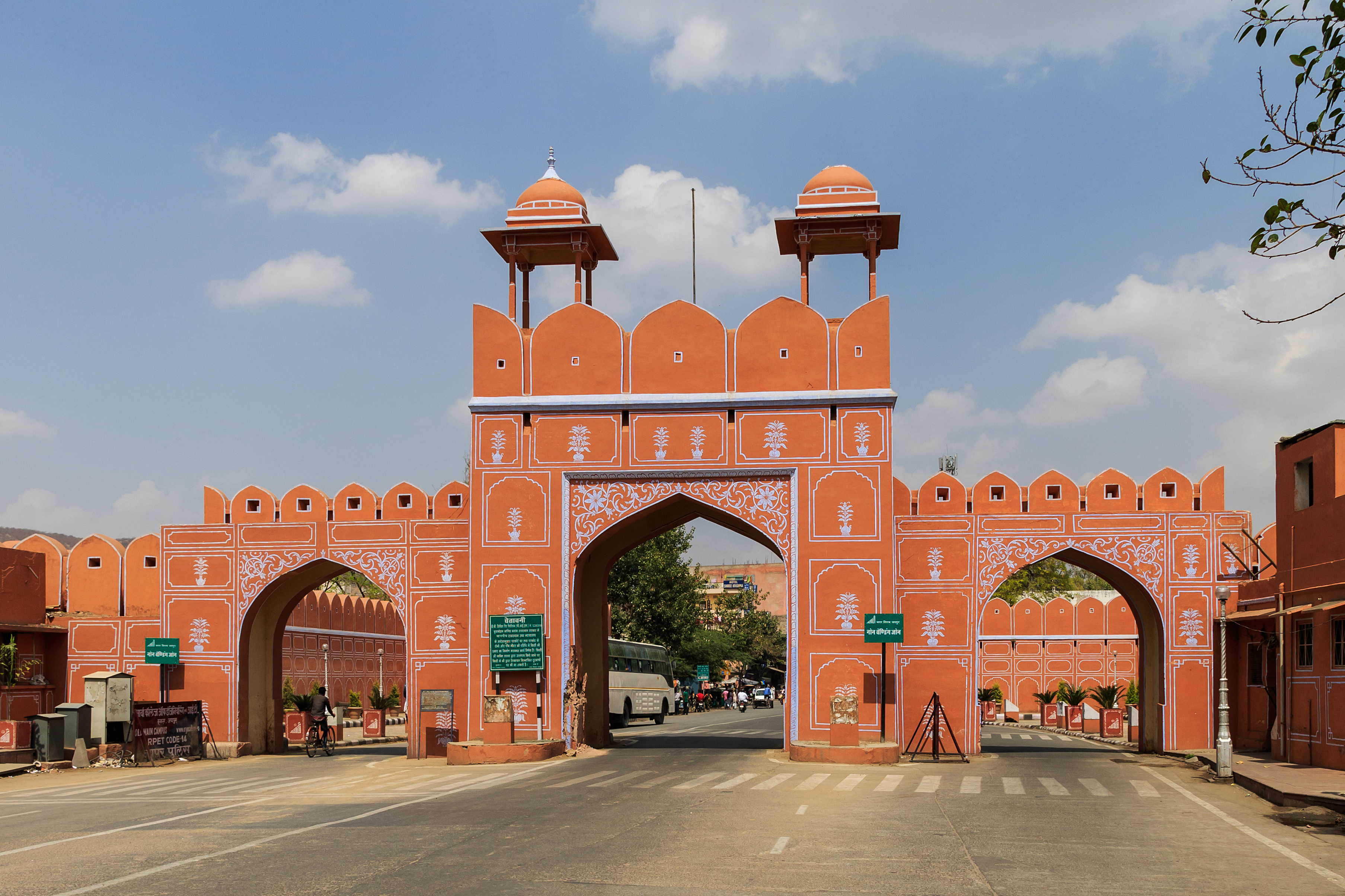 Jorawar Singh Gate in Jaipur, India